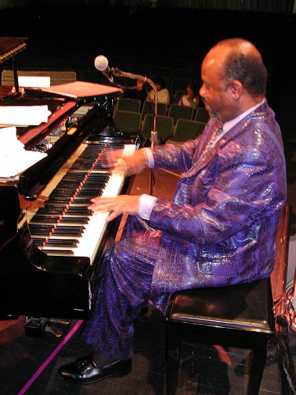 Johnny O'Neal appearing as guest artist with SuperJazz.